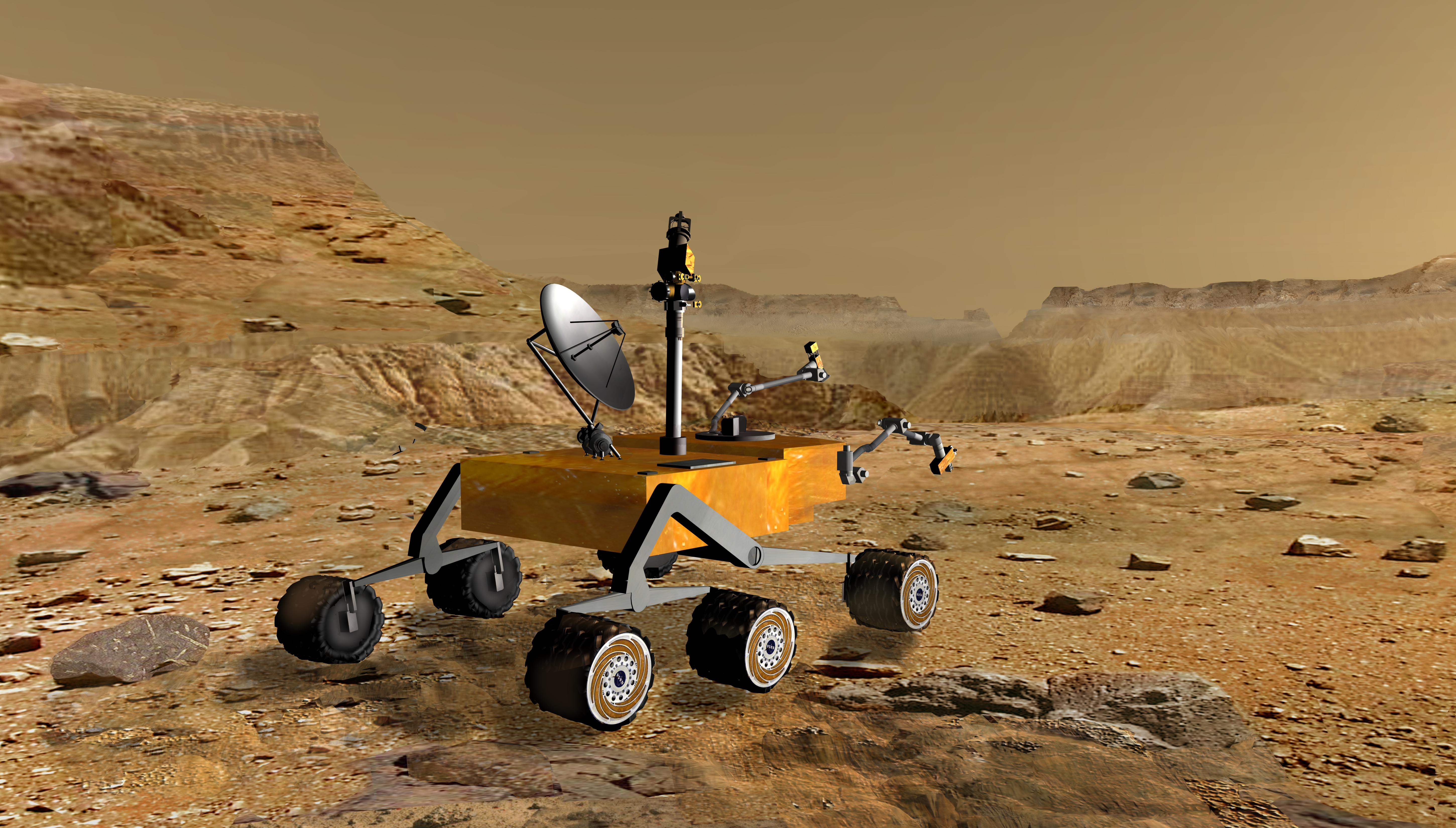 NASA's Mars Science Laboratory travels near a canyon on Mars in this artist's concept. The mission is under development for launch in 2009 and a precision landing on Mars in 2010.